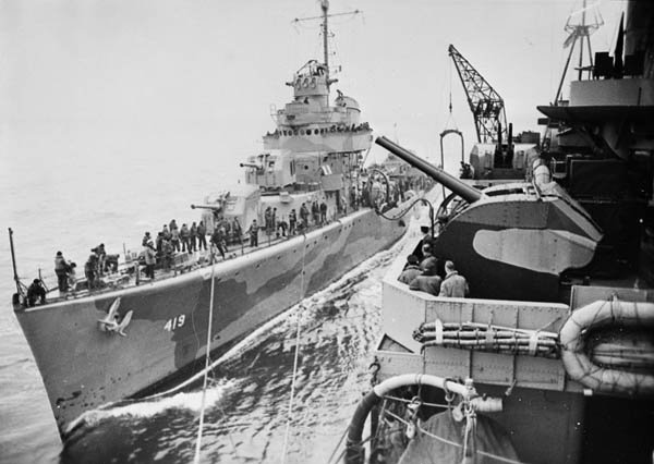 The U.S. Navy destroyer USS Wainwright (DD-419) refuelling from the Royal Navy cruiser HMS Norfolk. Wainwright was part of the covering force for the ill-fated Convoy PQ 17, making the run from Iceland to Archangel. The force consisted of the cruisers HMS London (69), HMS Norfolk (78), USS Tuscaloosa (CA-37), USS Wichita (CA-45), the U.S. Navy destroyers USS Wainwright and USS Rowan (DD-405), and seven British destroyers. This photograph is featured in Arctic Convoys, a new photographic exhibition looking at the experiences of those who served on the Arctic Convoys. It's on at the National Maritime Museum until 4 November 2012